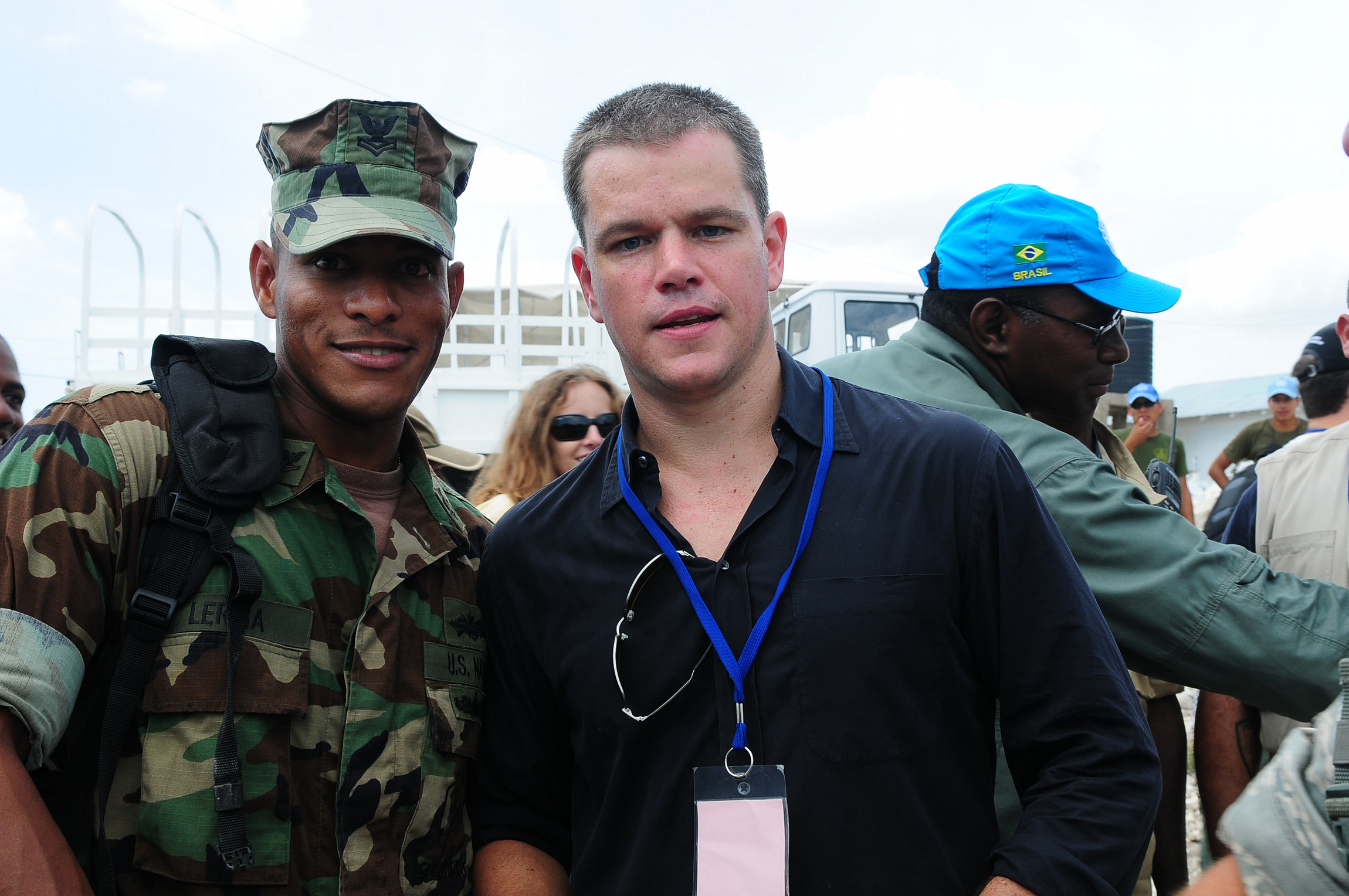 Equipment Operator 2nd Class Hugo Lerma, a civil engineer currently embarked aboard USS Kearsarge (LHD 3), poses for a picture with actor Matt Damon at the United Nations Stabilization Mission (MINUSTAH) in Haiti. Kearsarge has been diverted from the scheduled Continuing Promise 2008 humanitarian assistance deployment in the western Caribbean to conduct disaster relief operations in Haiti.